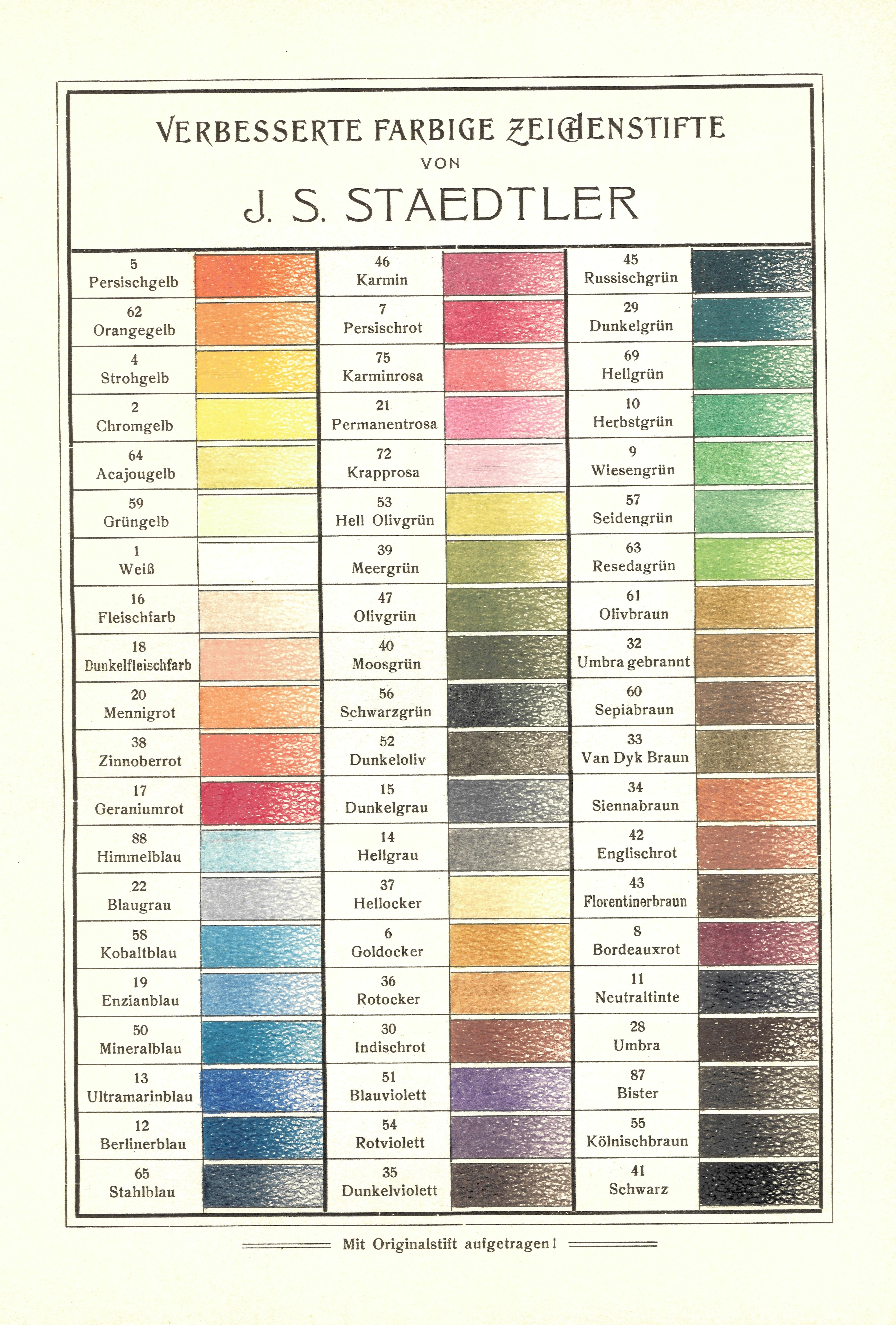 Die Farbtafel war Teil einer 1908 veröffentlichten Preisliste des Stiftherstellers J.S. Staedtler in Nürnberg. Sie zeigt die Originalfarben der 60 verschiedenen Buntstifte des Herstellers.